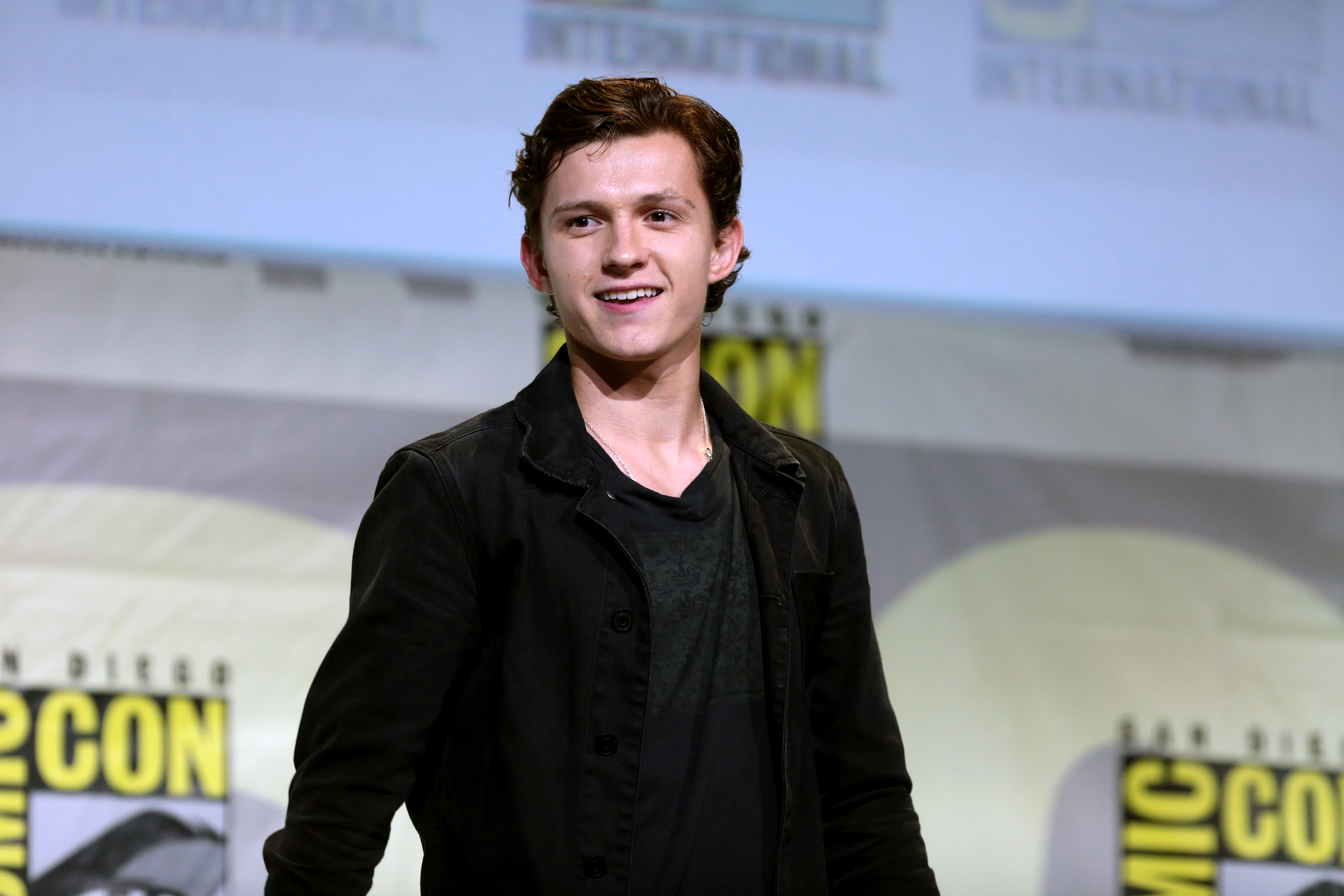 Tom Holland speaking at the 2016 San Diego Comic Con International, for "Spider-Man: Homecoming", at the San Diego Convention Center in San Diego, California.